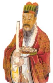 Xia Yan, politician of the Ming Dynasty.